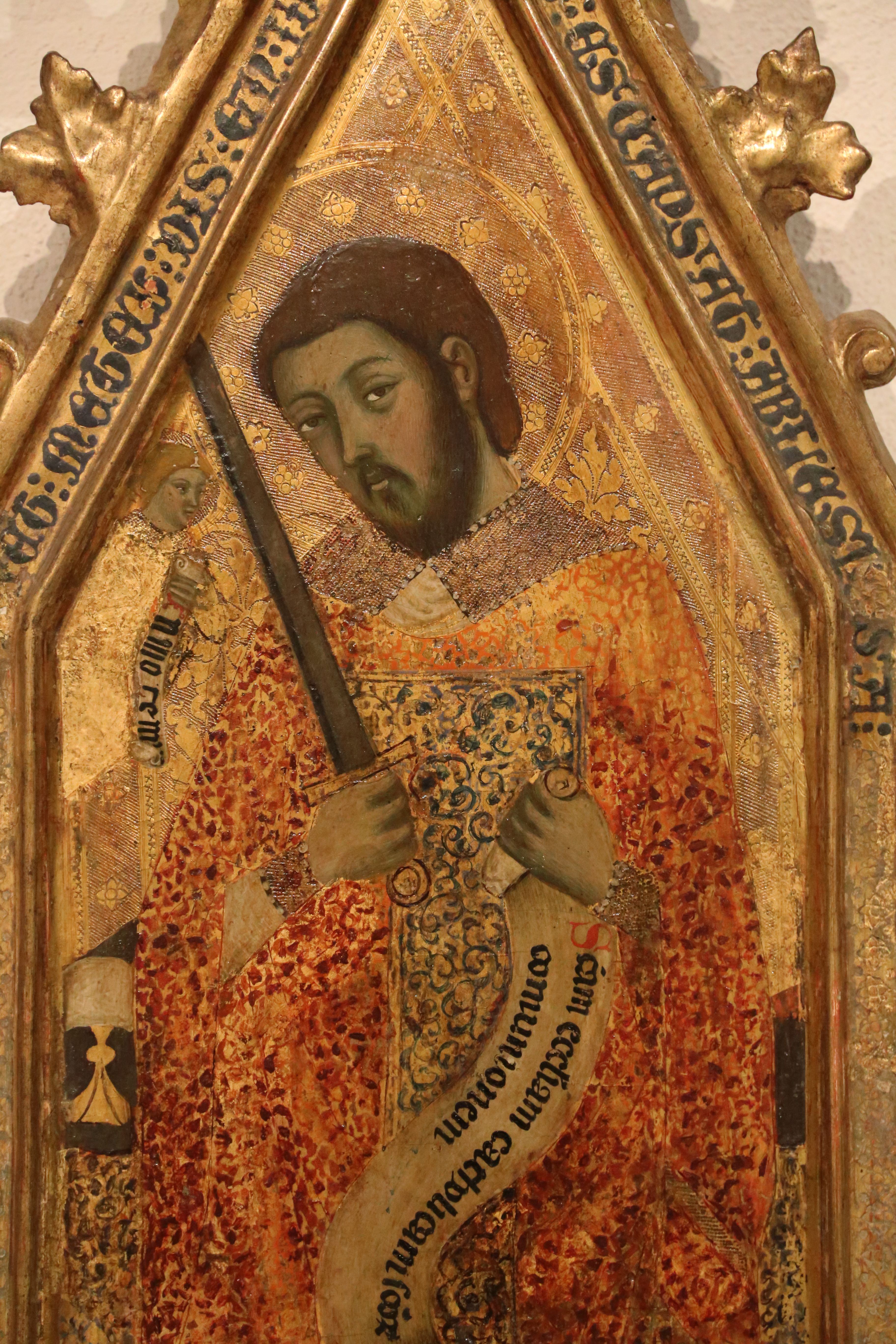 Paintings in the Palais des Beaux-Arts de Lille